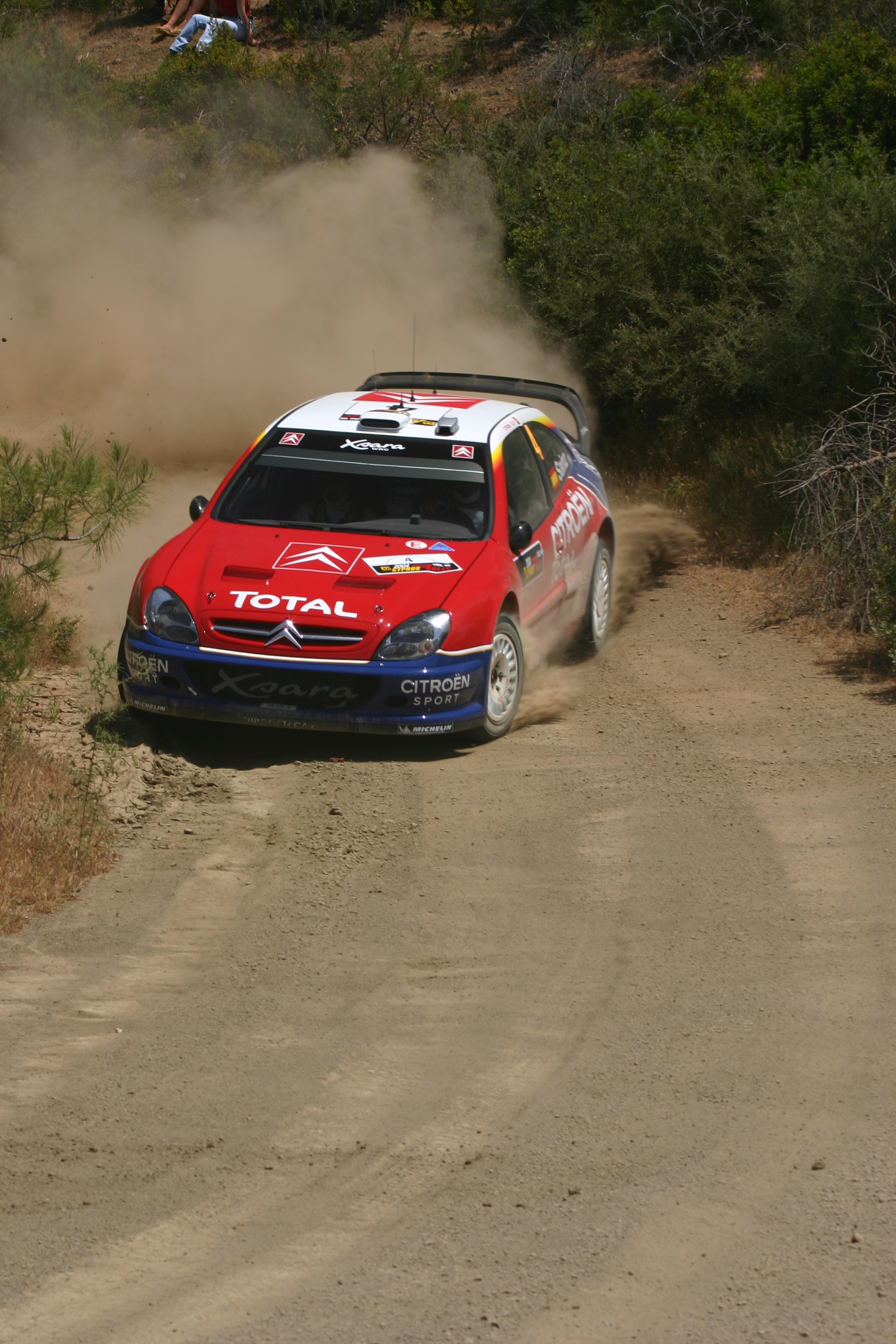 Carlos Sainz driving his Citroën Xsara WRC during the shakedown of the 2004 Cyprus Rally.